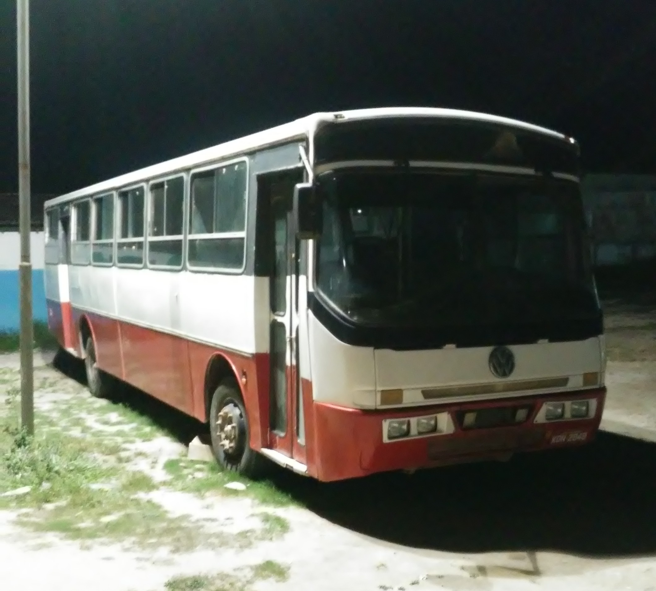 Ciferal GLS Bus on a Volkswagen 16.180 CO chassis in the city of São Miguel das Matas, Bahia, Brazil.